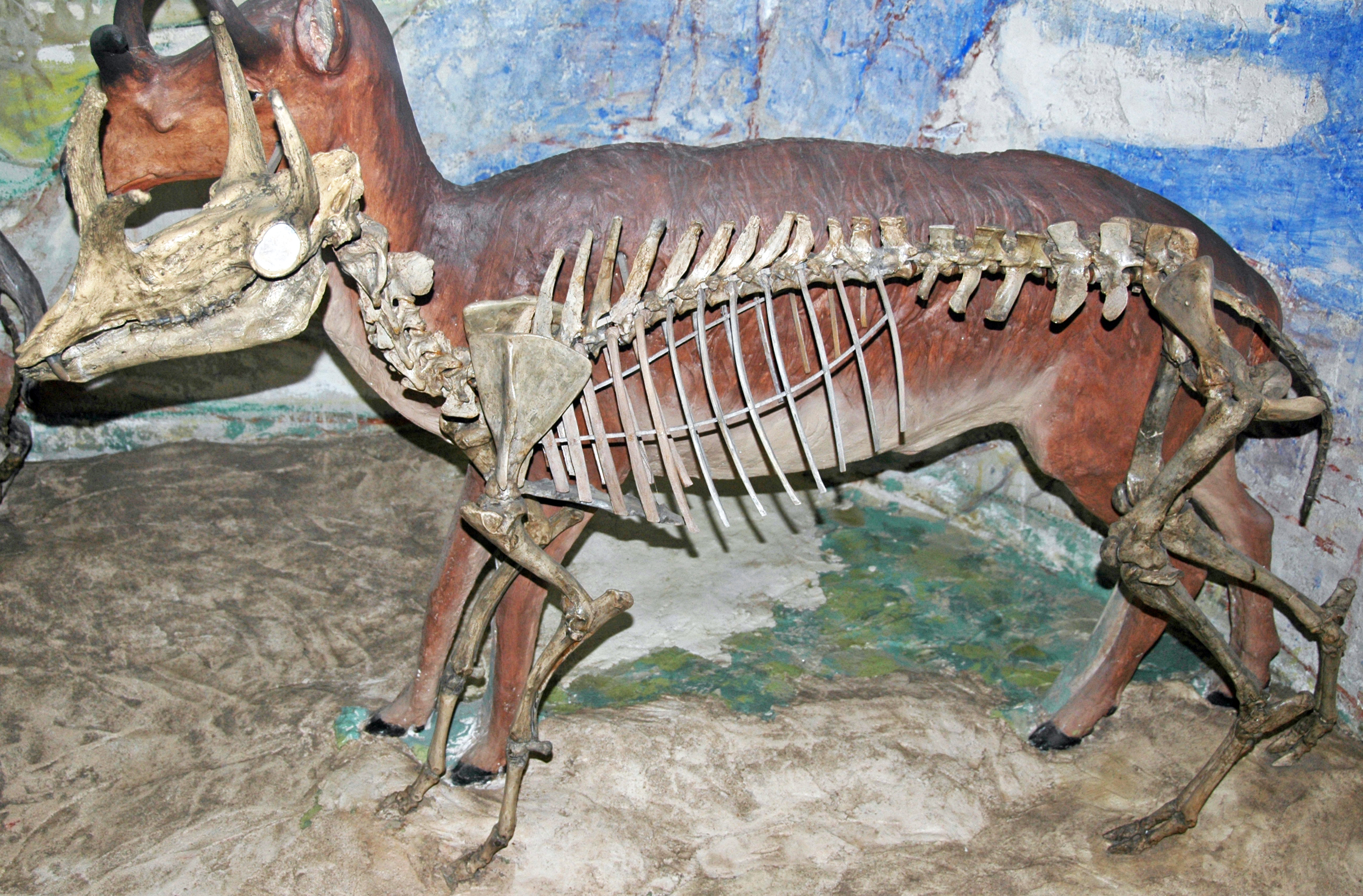 Syndyoceras cooki Barbour, 1905 - fossil mammal skeleton from the Miocene of Nebraska, USA. (public display, Nebraska State Museum of Natural History, Lincoln, Nebraska, USA) From museum signage: Four-horned ruminant Syndyoceras belongs to an extinct group of artiodactyls. Fossil remains of this ruminant have been found only in Nebraska and Wyoming, and the specimen from Nebraska displayed here is the only mounted specimen recorded. Syndyoceras is a distant relative of the modern antelope, giraffe, deer, and cow. The male is unusual in that is possesses four horns, which probably were very effective for protection. Classification: Animalia, Chordata, Vertebrata, Mammalia, Artiodactyla, Ruminantia, Protoceratidae Stratigraphy: Daimonelix beds, Marsland Formation, Middle Miocene Locality: bluffs at the James Cook Ranch, western side of the Niobrara River, near the town of Agate, Sioux County, northwestern Nebraska, USA See info. at